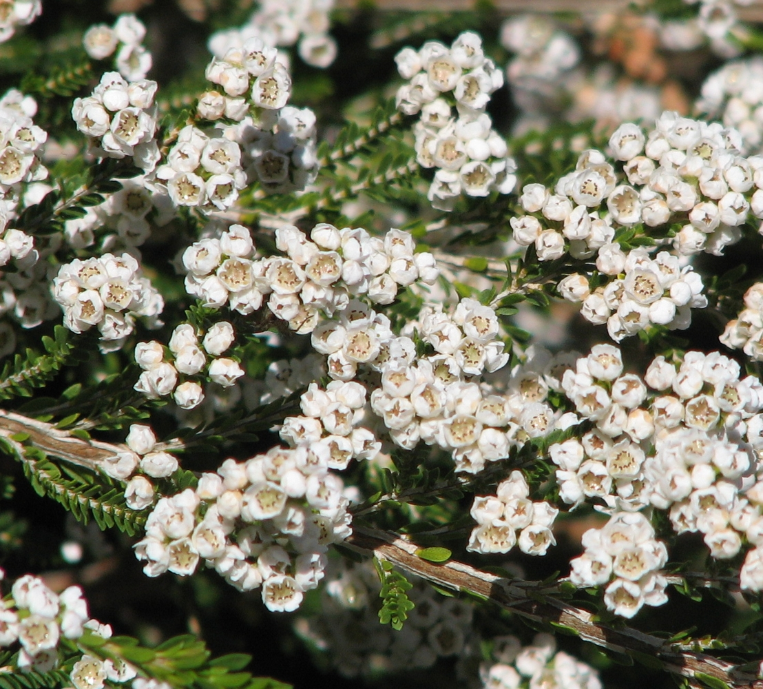 Thryptomene saxicola (White Flower Form), Wilson Botanic Park, Berwick, Victoria, Australia